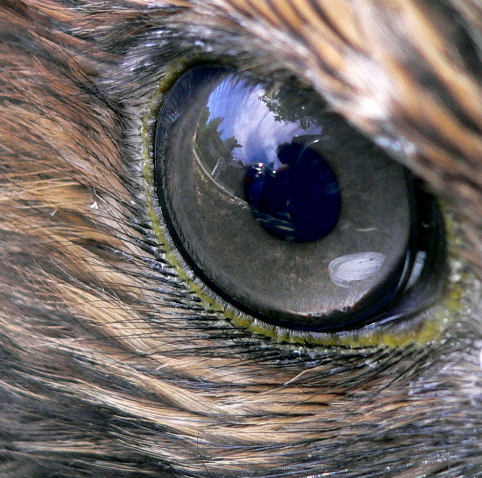 Closeup of the eye of a Red-tailed Hawk (Buteo jamaicensis). On an exhausted juvenile, near Whalers Cove, Pescadero, California.